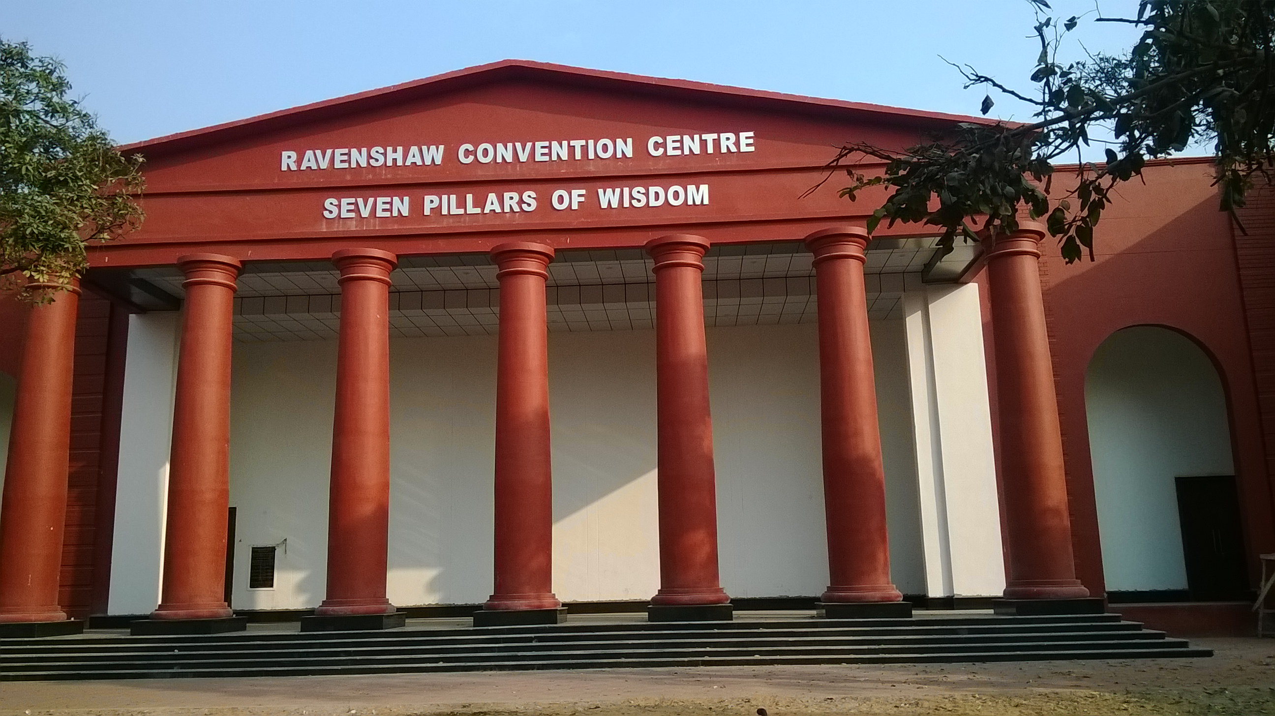 Convention Centre of Ravenshaw University ( Seven Pillars Of Wisdom )